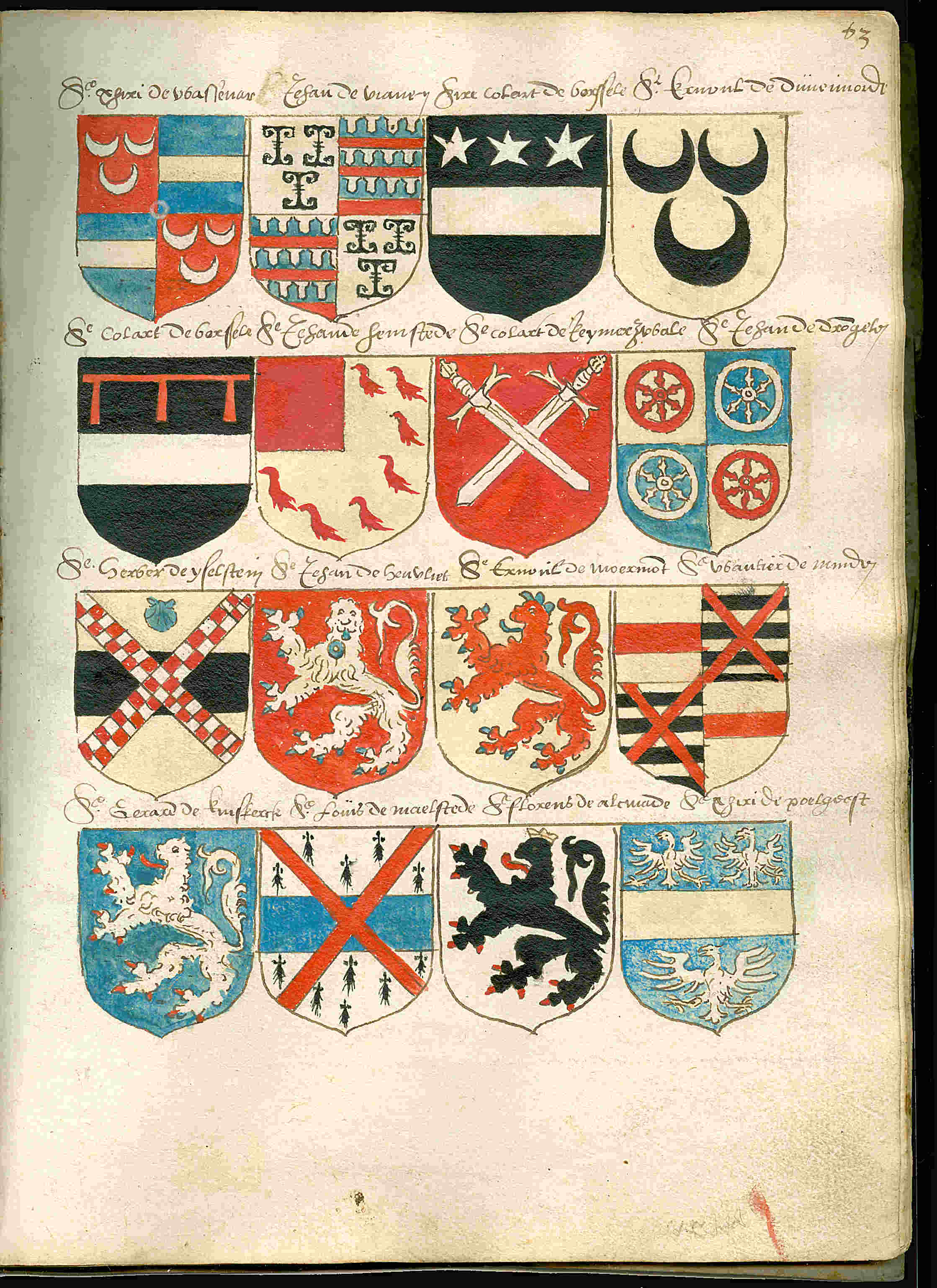 Page 63 from a copy of the Beyeren armorial / Wapenboek Beyeren from ca. 1600. The original Beyeren armorial from 1405 can be viewed at the website of the KB